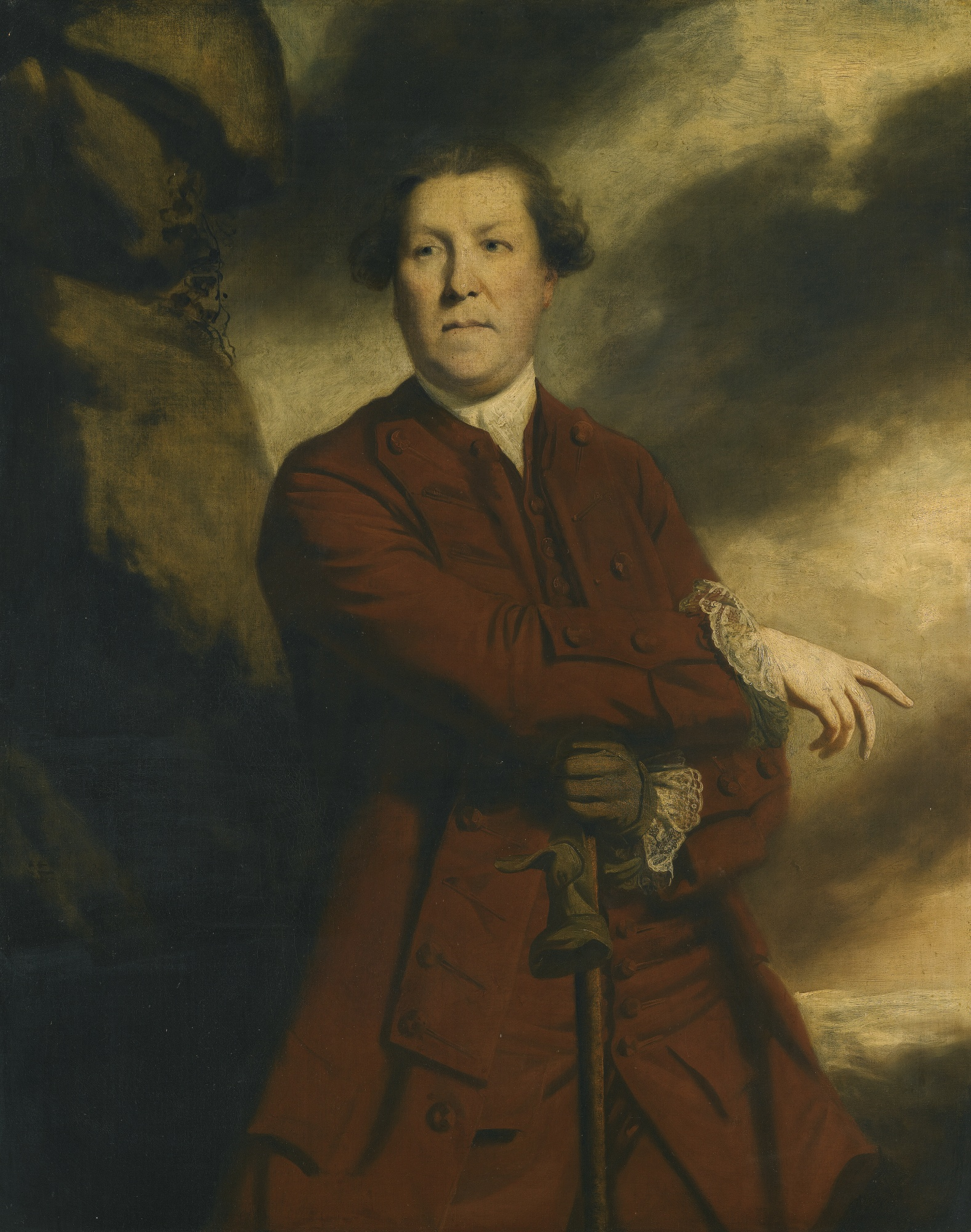 Portrait of captain Robert Haldane, of Gleneagles (1705-1767)